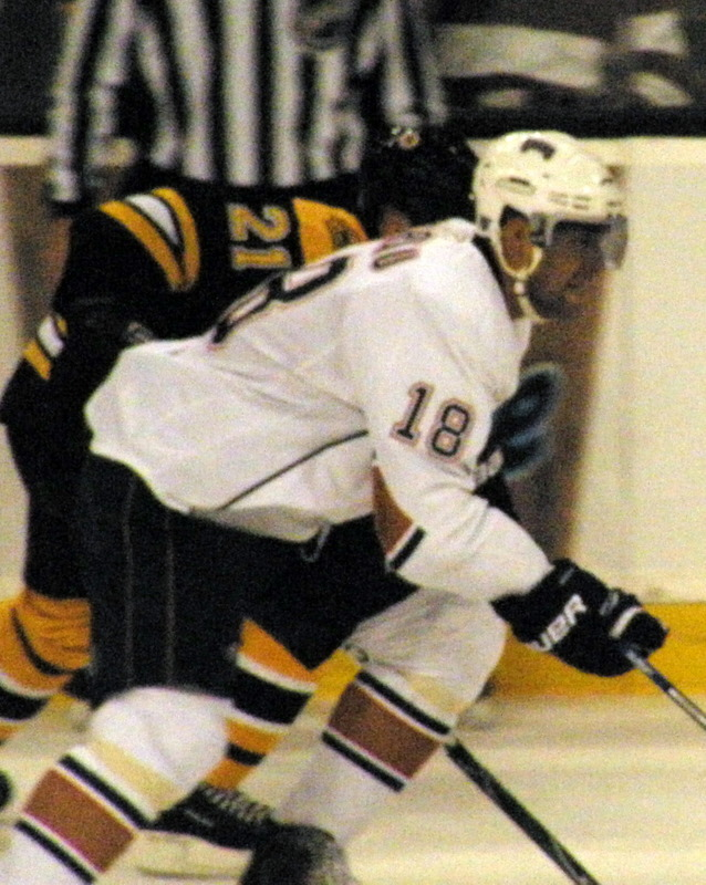 18 Ethan Moreau (Edm) for the puck